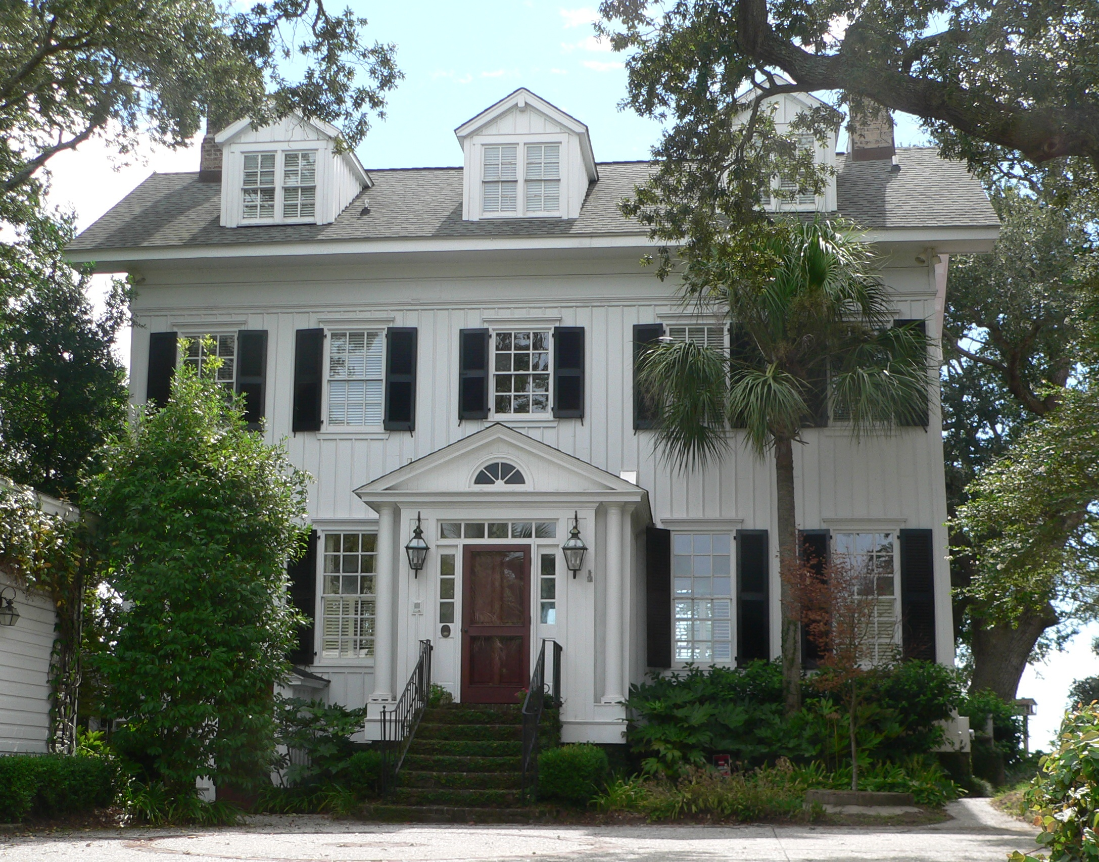 House at 200 Bank Street in Mount Pleasant, South Carolina. The house is part of the Mount Pleasant Historic District, which is listed in the National Register of Historic Places.